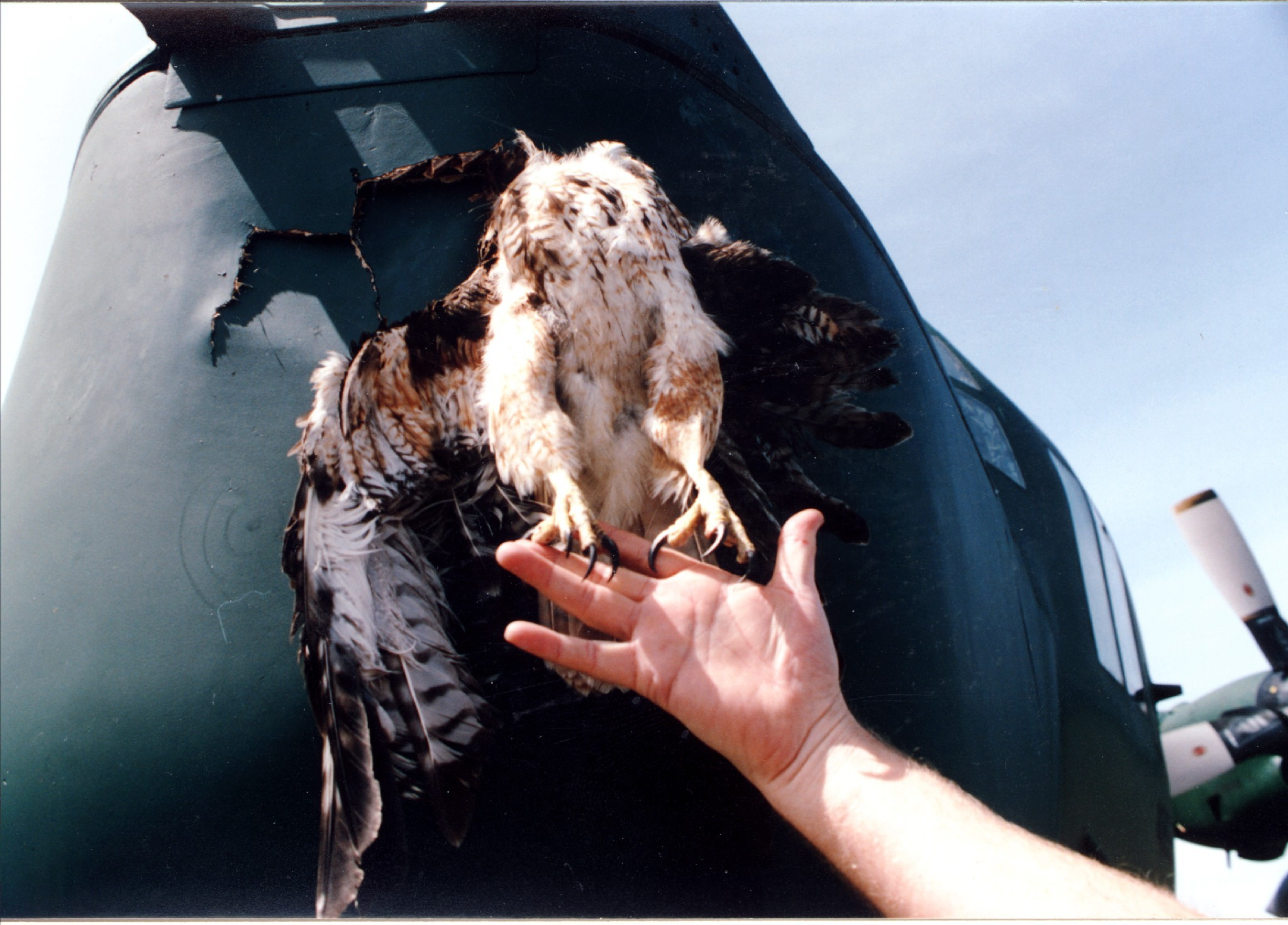 C-130 after collision with a hawk, view of hawk head outside nosecone.